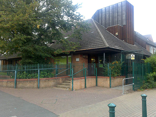 Strelley Road Library Construction date unknown.